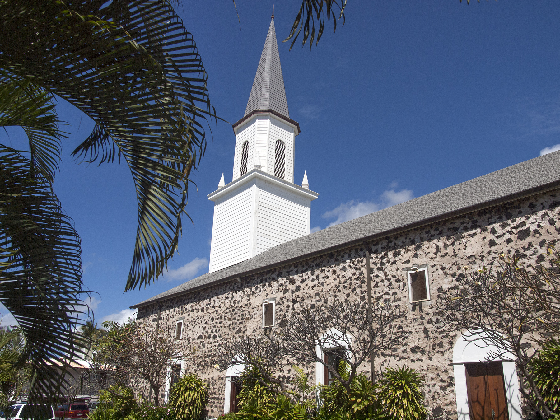 Mokuaikaua Church (est 1836) ii